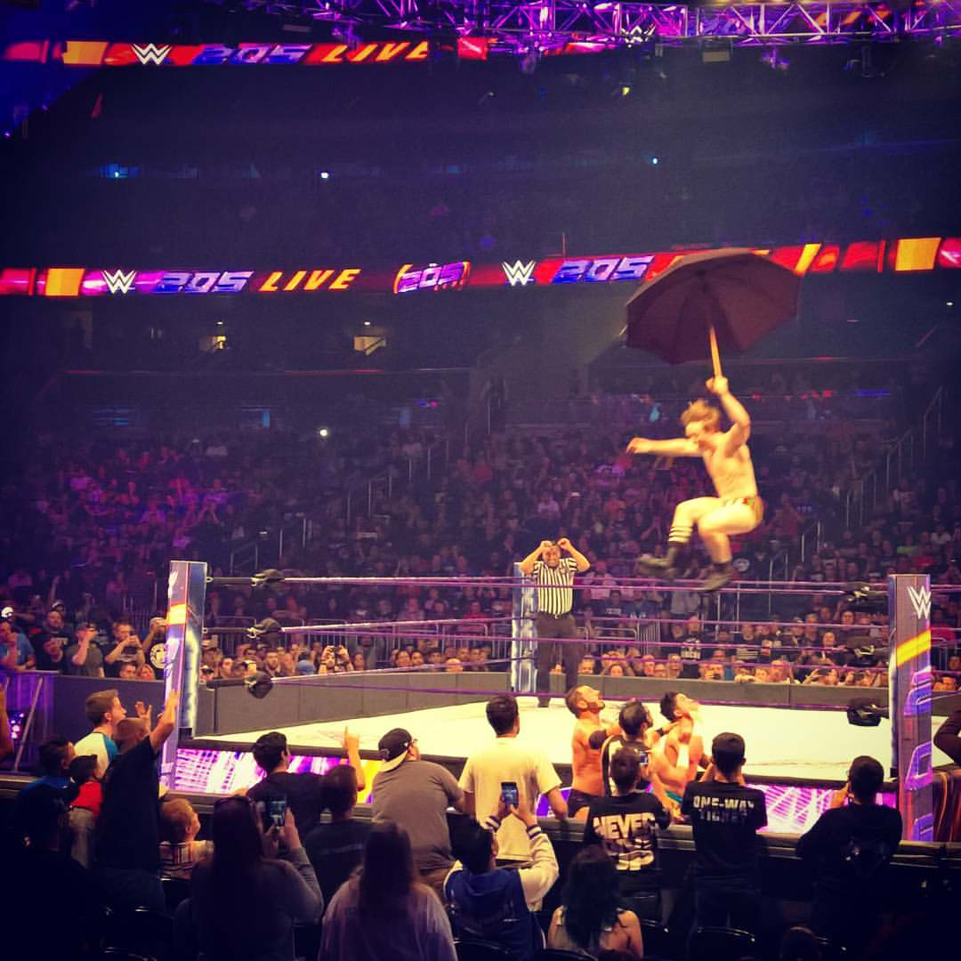 We've all been there. You've gone out because you need to be somewhere and have heard it's going to rain later, but you make it to your destination and it turns out you didn't need it after all. Well, gonna have to use it for something...! Brilliant #Fat